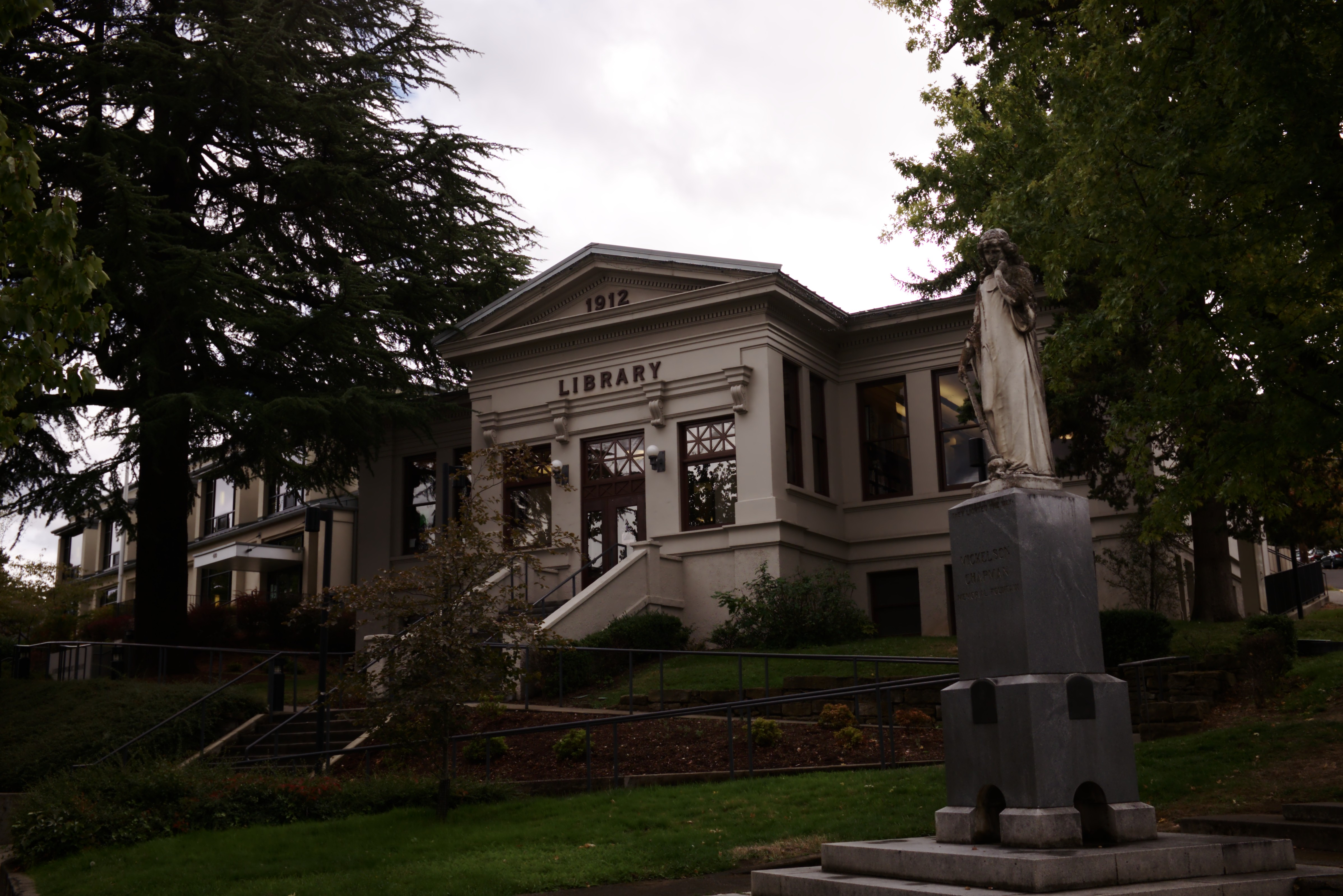 Ashland Library